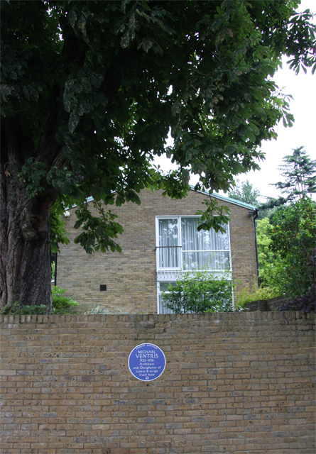 Blue Plaque for Michael Ventris 19 North End, Hampstead, London NW3,where Michael Ventris (1922–56), the architect and decipherer of Linear B script, lived from 1953 to 1956.Designed by Ventris and his wife Lois, this simple brick-built house was built in 1952–3 and fitted out with furniture by Marcel Breuer. - information from English Heritage. Information about Linear B script may be found on Wikipedia.